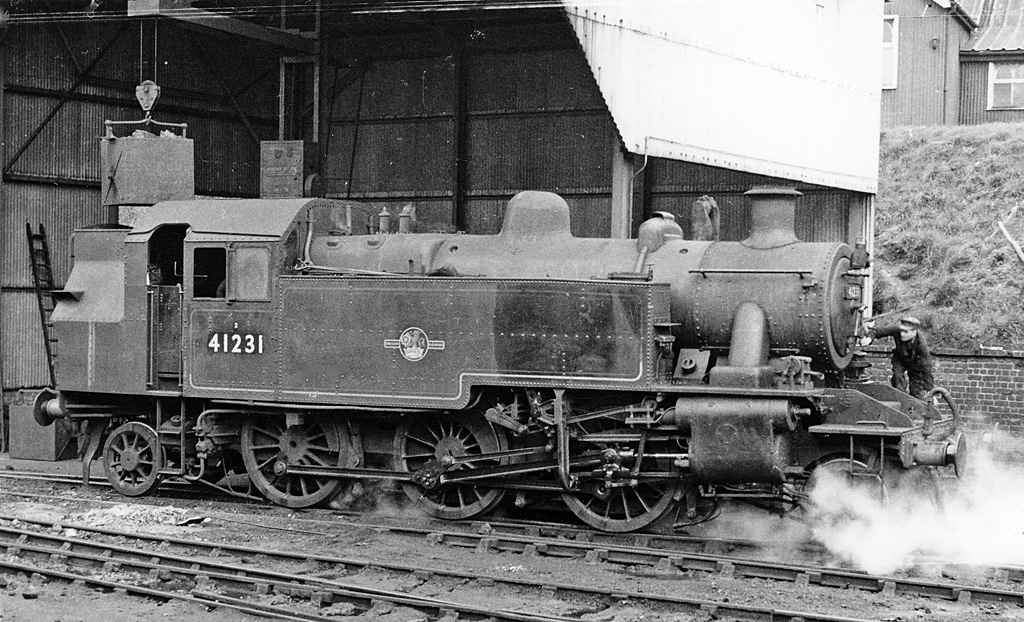 Locomotive at Wellington Locomotive Depot. LMS-type Ivatt 2MT 2-6-2T No. 41231 is being coaled by grab, while the fireman attends to the smokebox